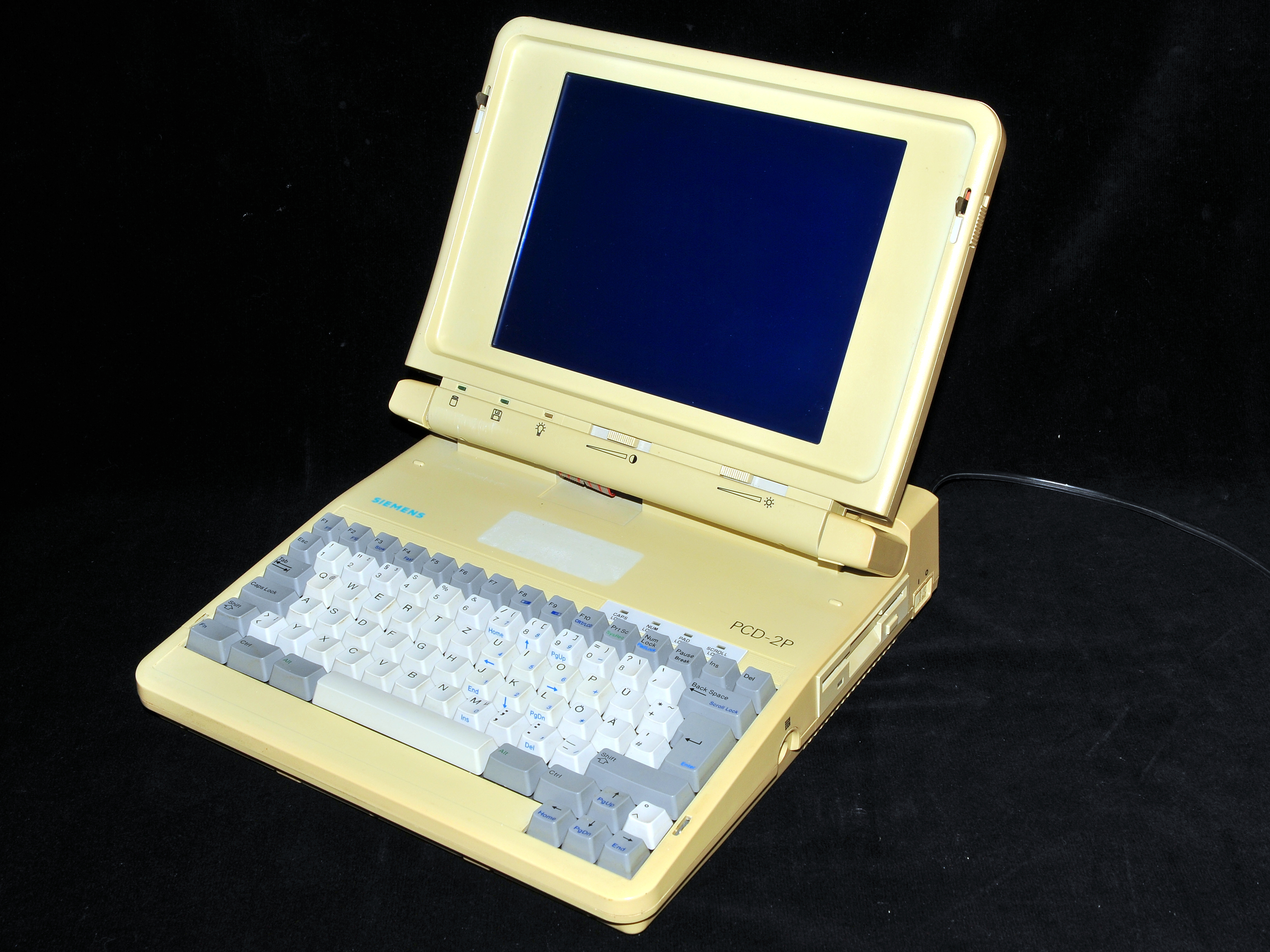 1988 Laptop PCD-2p by Siemens